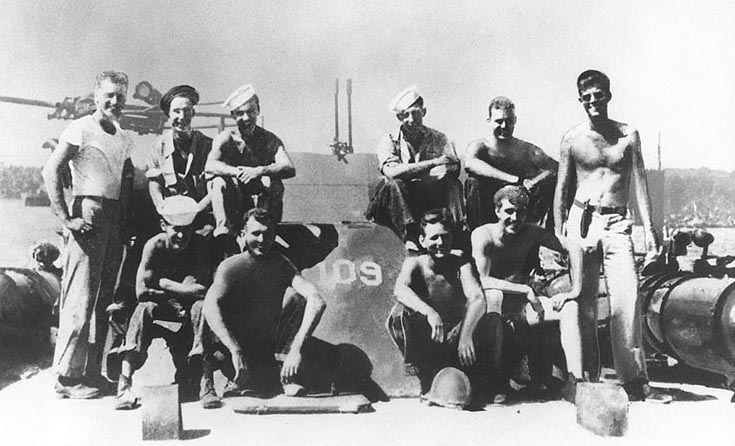 Lieutenant John F. Kennedy, USNR, (standing at right) with other crewmen on board PT-109, 1943.